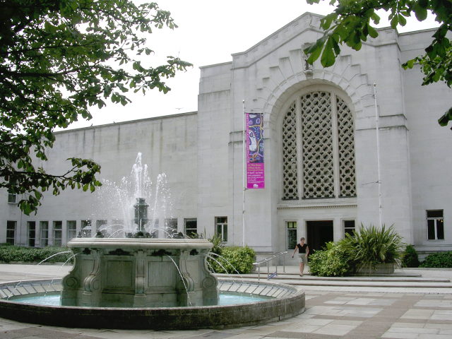 Fountain and entrance to Central Library and Art Gallery, Southampton Civic Centre. The doorway leads through to the northern side of the Civic Centre, containing the Central Library, Art Gallery and shop.